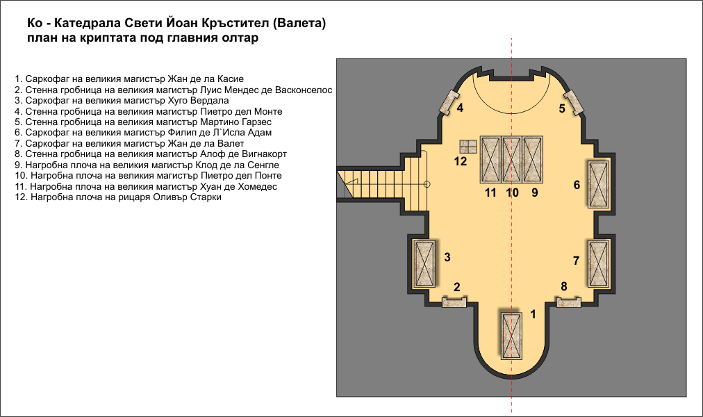 plan of the crypt in St. John's co-cathedral, Valletta